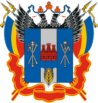 Rostov oblast, coat of arms